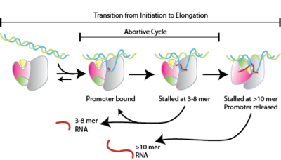 T7 RNA polymerase abortive initiation cycle